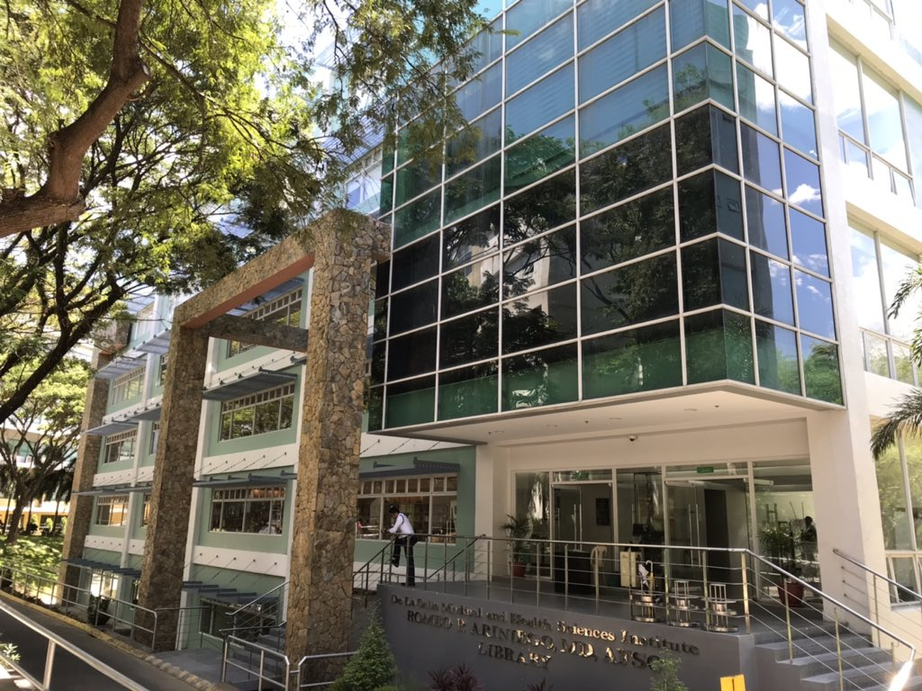 The facade of DLSMHSI's modern library